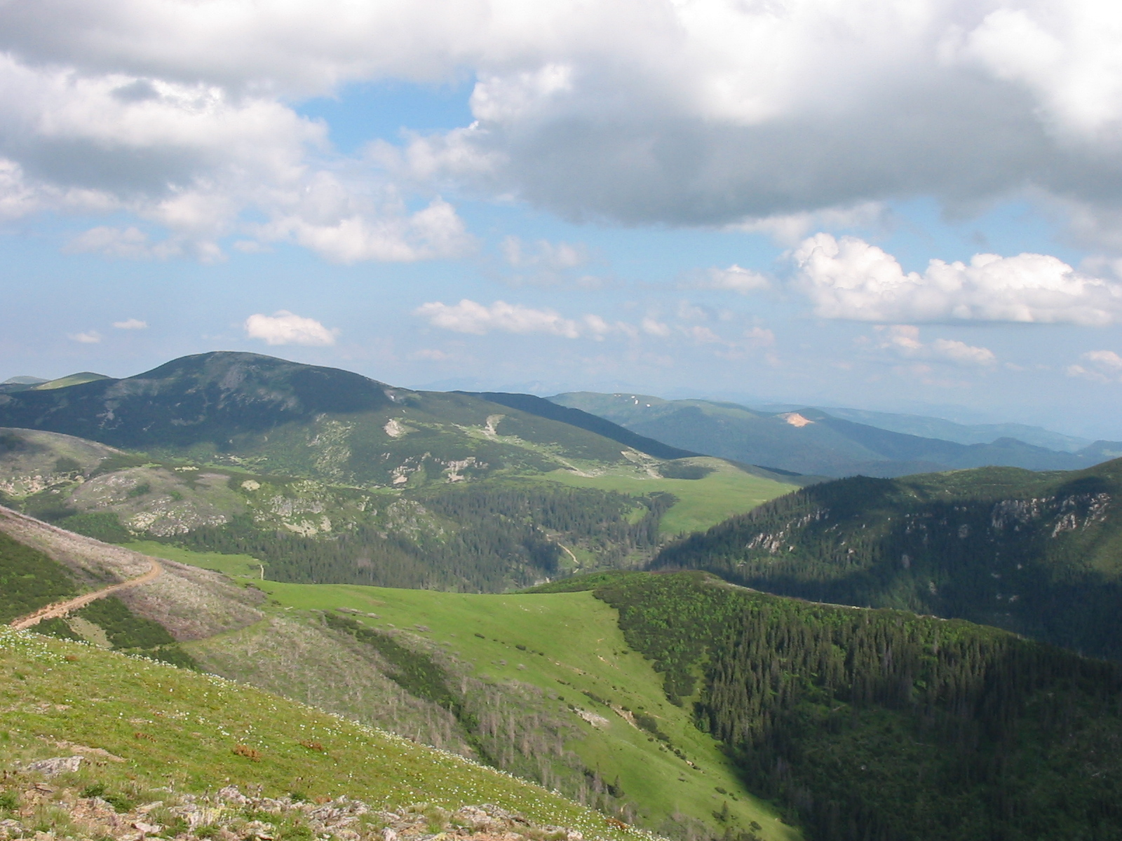 Mountain Vranica